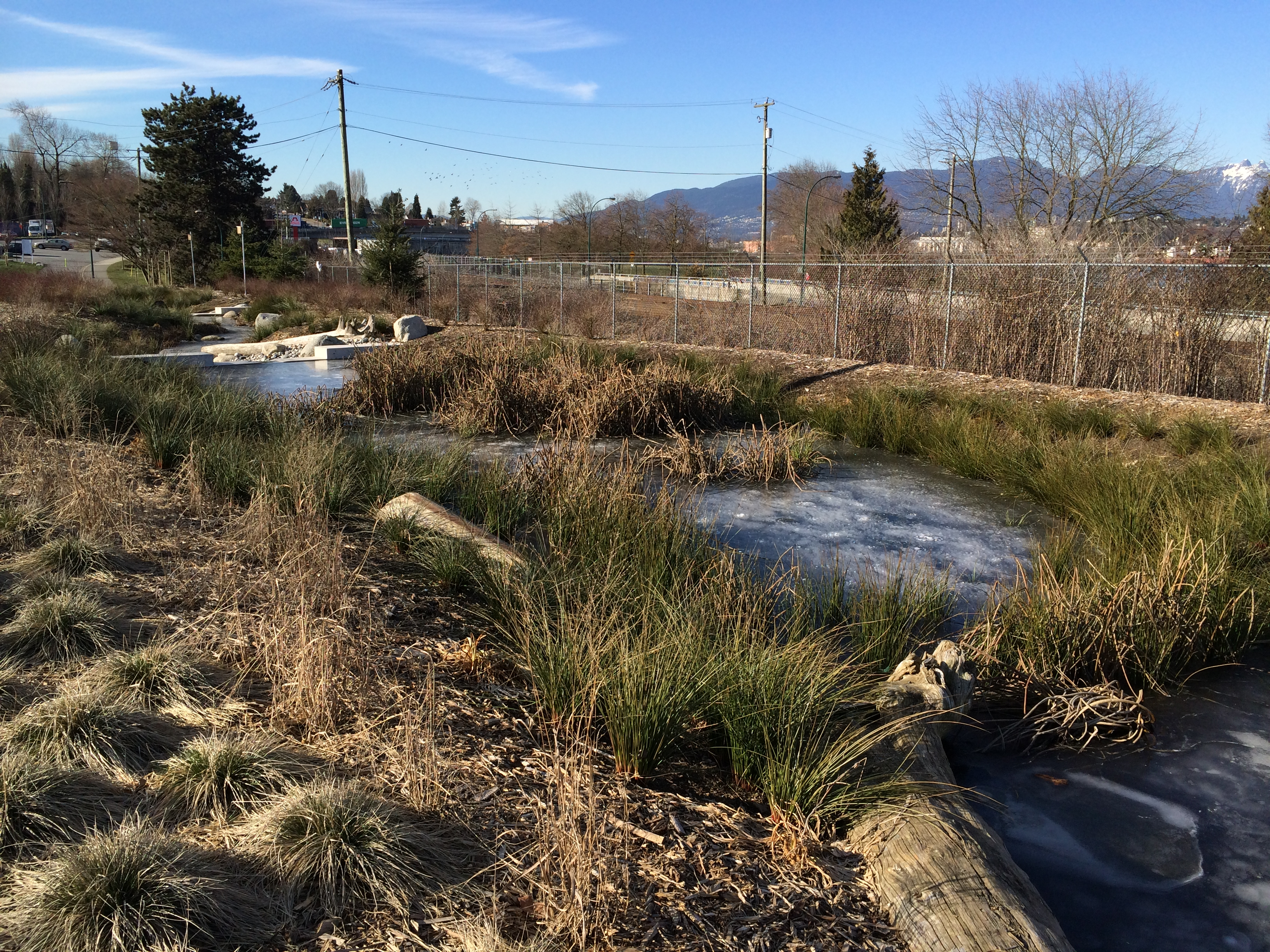 Creekway Park Picture